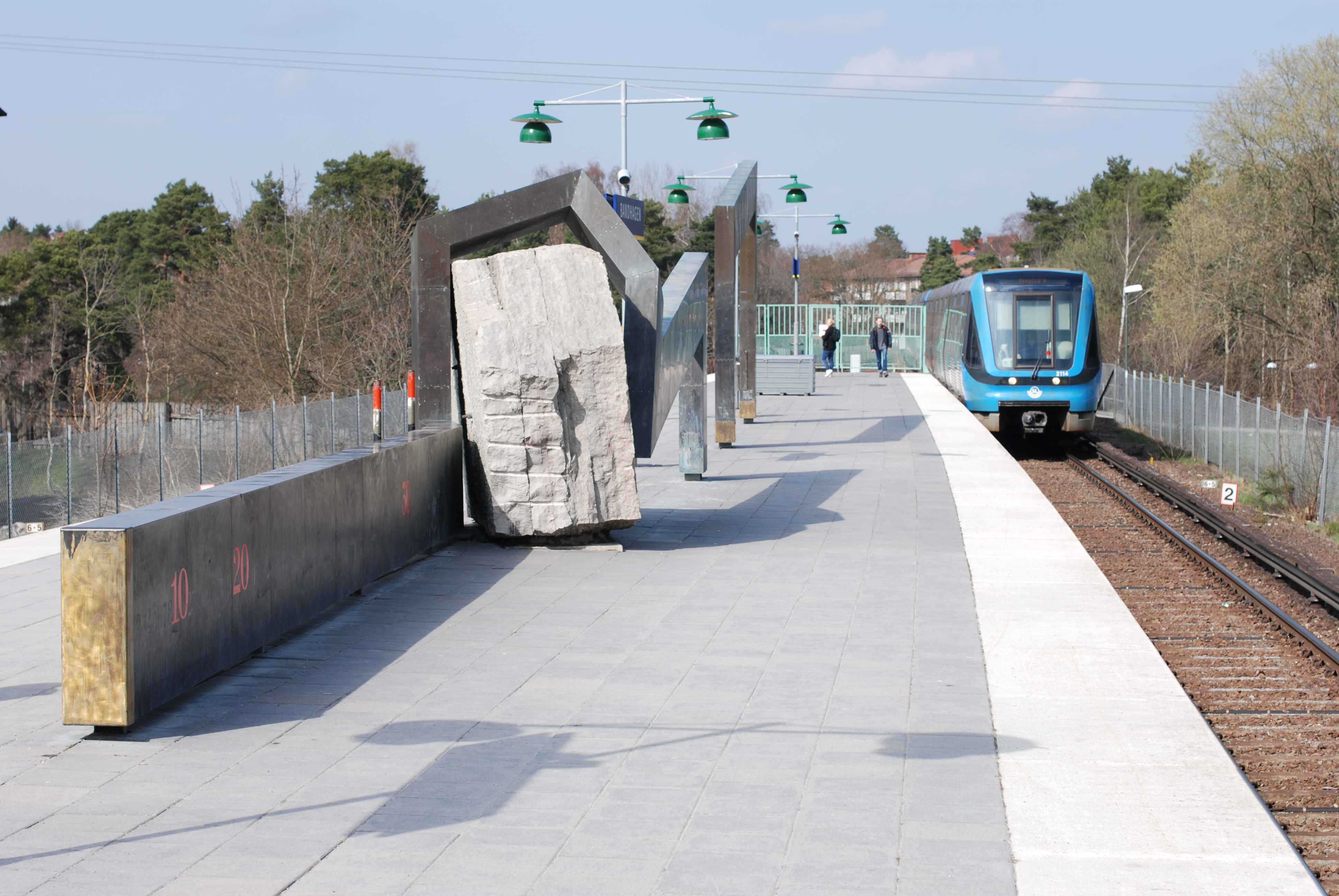 Freddy Fraek´s Linear (1983), copper plates on wood, Bandhagen Metro Station, Stockholm, Sweden